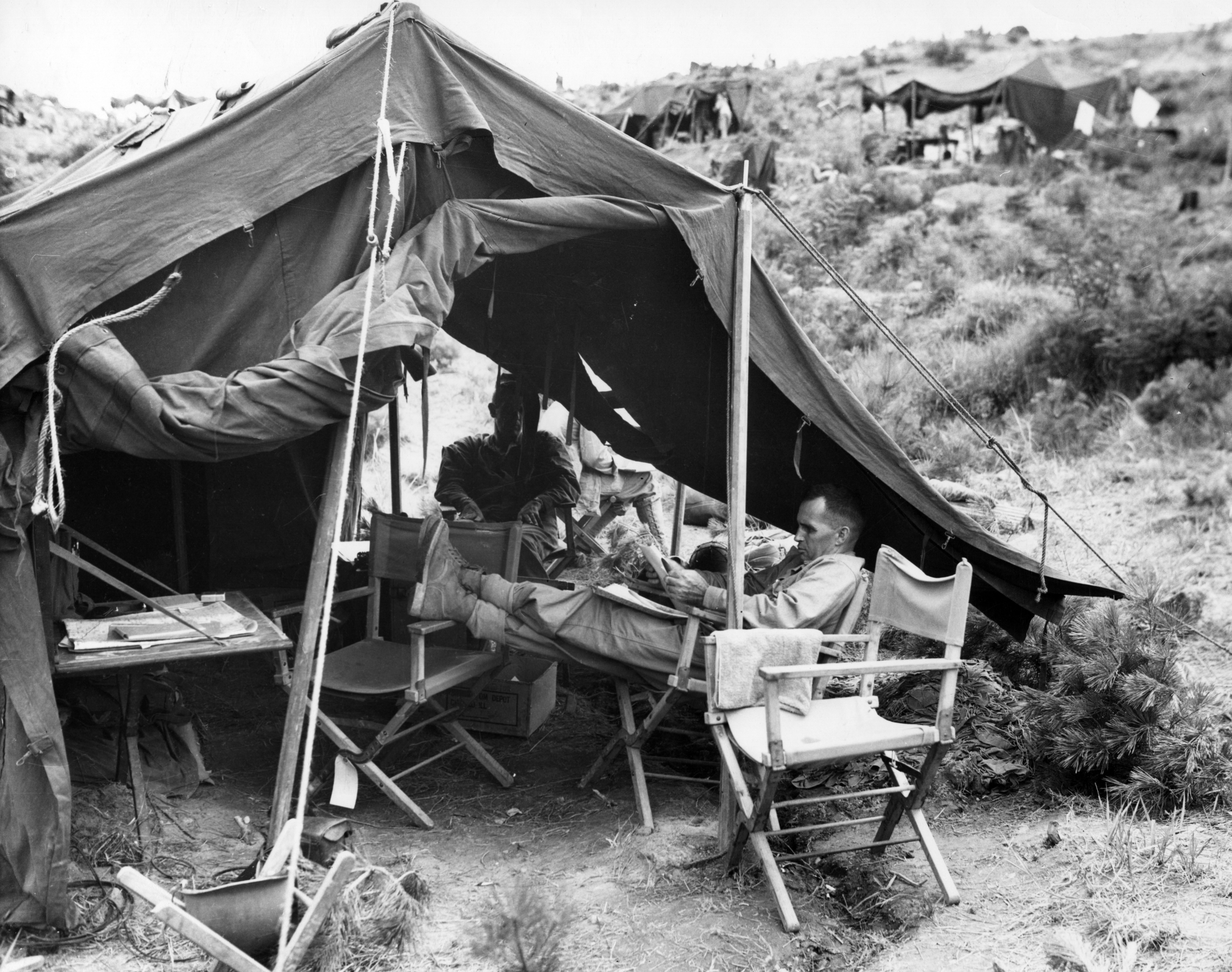 Colonel Edward W. Snedeker, Deputy Chief of Staff, 1st Marine Division, at his command post in Korea. Defense Department Photo (Marine Corps) A1443